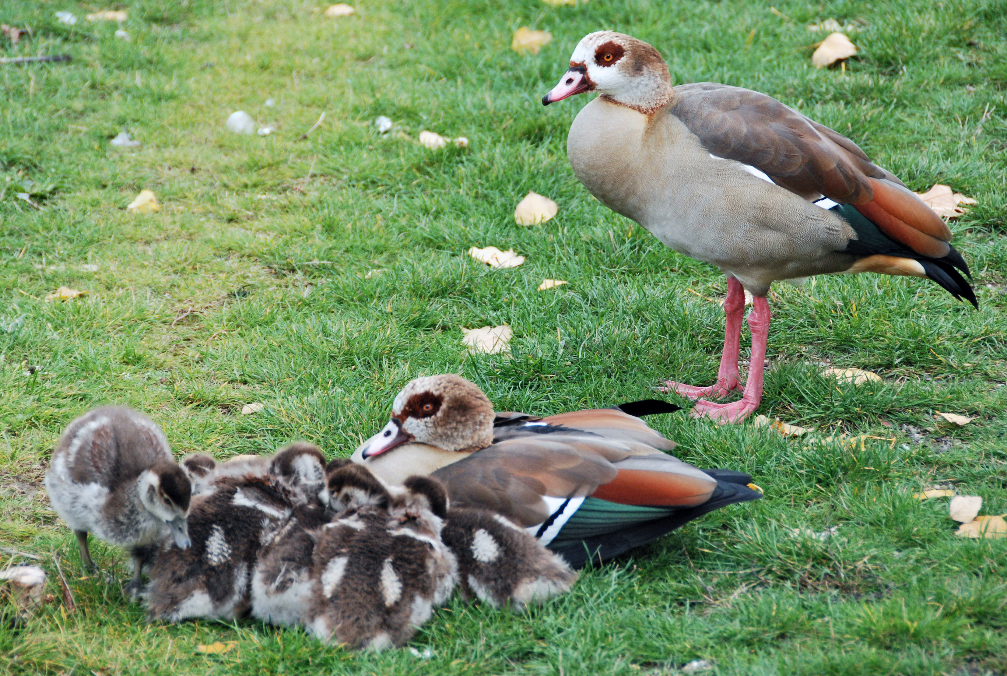 Egyptian Goose (Alopochen aegyptiacus) family (adults and goslings) at Main river in Frankfurt, Germany